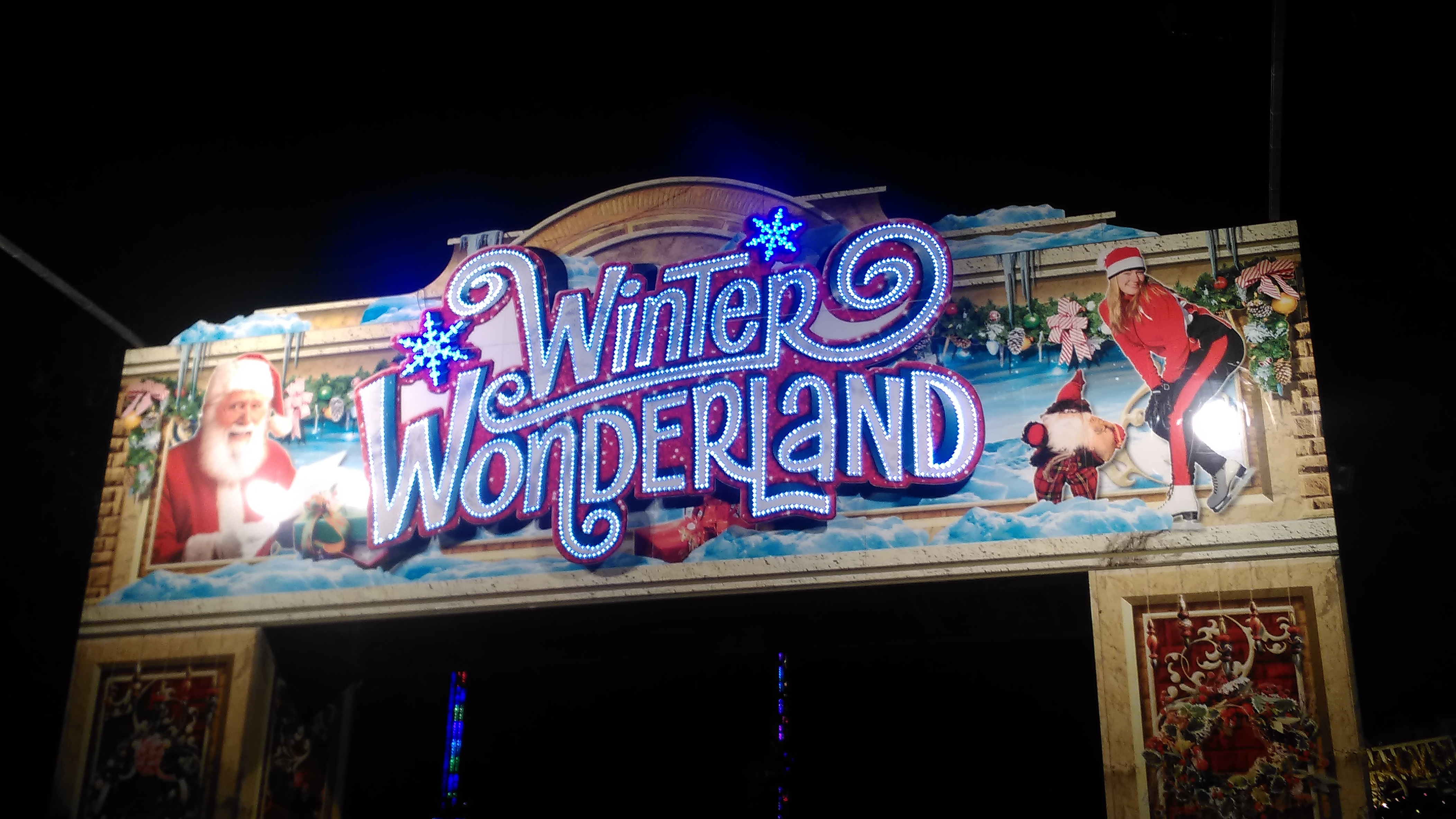 Entrance of Hyde Park Winter Wonderland 2016, Hyde Park, London, United Kingdom